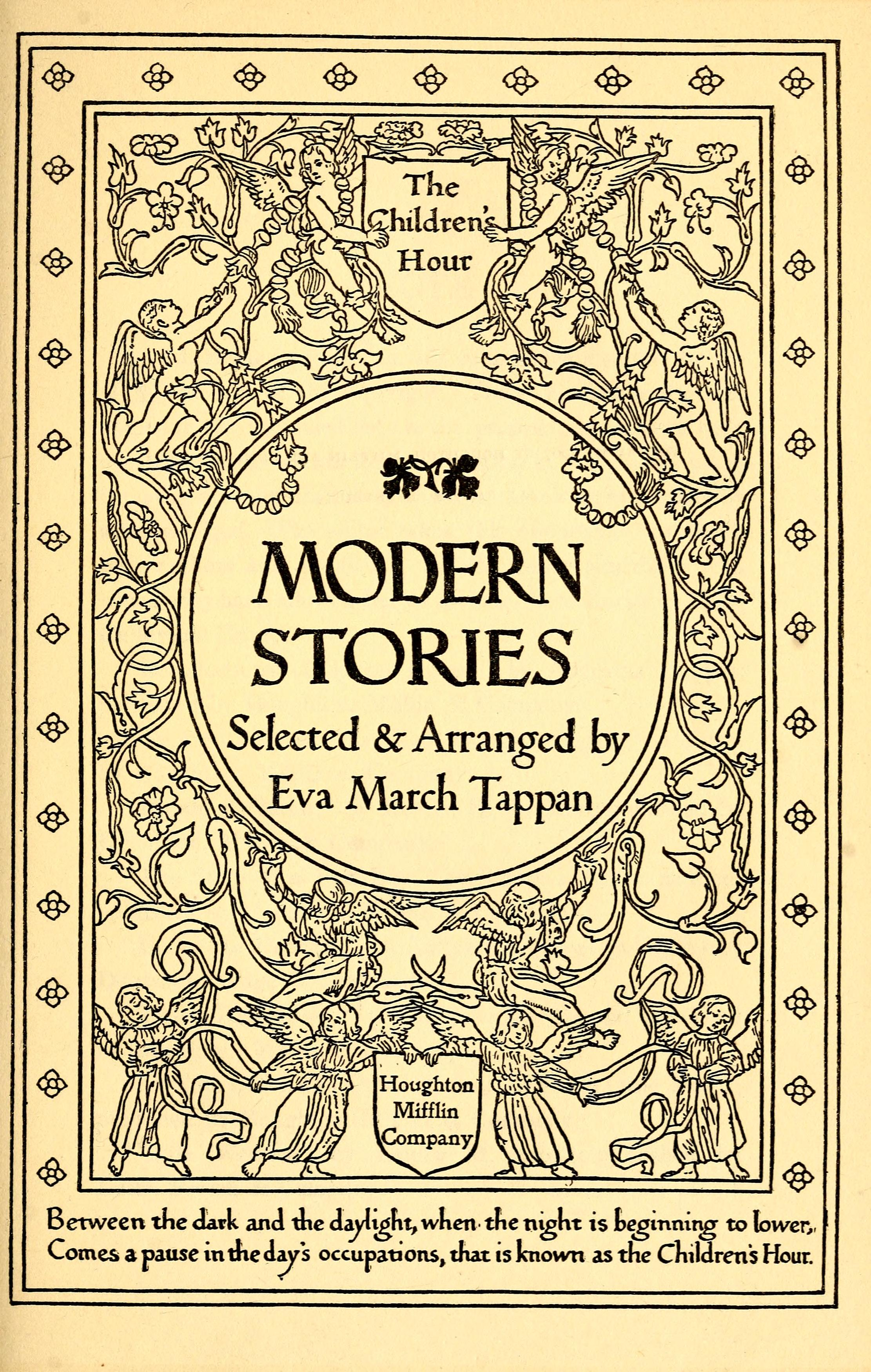 Title: Modern stories Year: 1907 (1900s) Authors: Tappan, Eva March, 1854-1930 Subjects: Publisher: (Boston, New York, etc.) Houghton Mifflin & company Text Appearing Before Image: ' Text Appearing After Image: Between the dark and the daylight, when the night is beginning to lower, Comes a pause in the days occupations, that is known as the Childrens Hour. COPYRIGHT 1907 BY HOUGHTON, MIFFLIN AND COMPANY ALL RIGHTS RESERVED NOTE ALL rights in stories in this volume are reserved by the holders of the copyright. The publishers and others named in the subjoined list are the proprietors, either in their own right or as agents for the authors, of the stories taken from the works enumerated, of which the ownership is hereby acknowledged. The editor takes this opportunity to thank both authors and publishers for the ready generosity with which they have allowed her to include these stories in The Childrens Hour. Recollections of Auton House, by Augustus Hoppin; published by Houghton, Mifflin & Company. Timothys Quest, by Kate Douglas Wiggin; published by Houghton, Mifflin & Company. Dream Children, by Horace E. Scudder; published by Houghton, Mifflin & Company. TThe Story of a Bad Boy, by Thomas Bai